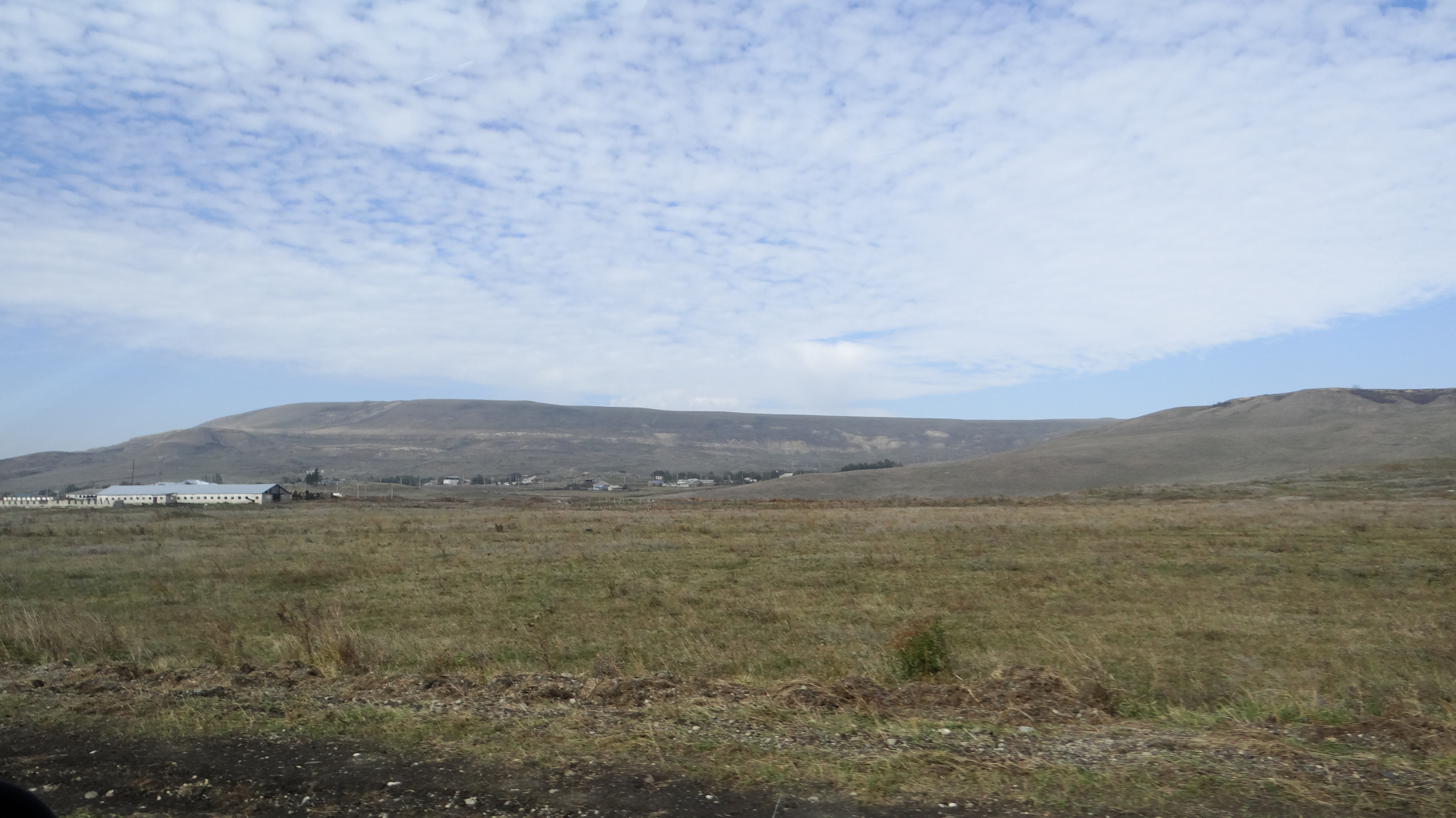 Prikubansky District, Karachay-Cherkessia, Russia